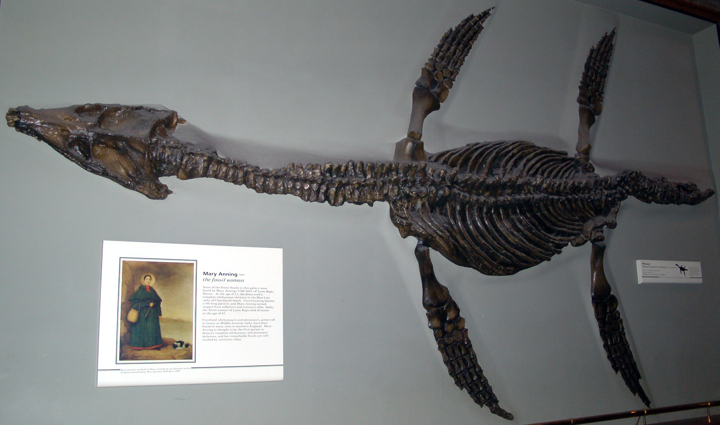 Rhomaleosaurus cramptoni, Natural History Museum.